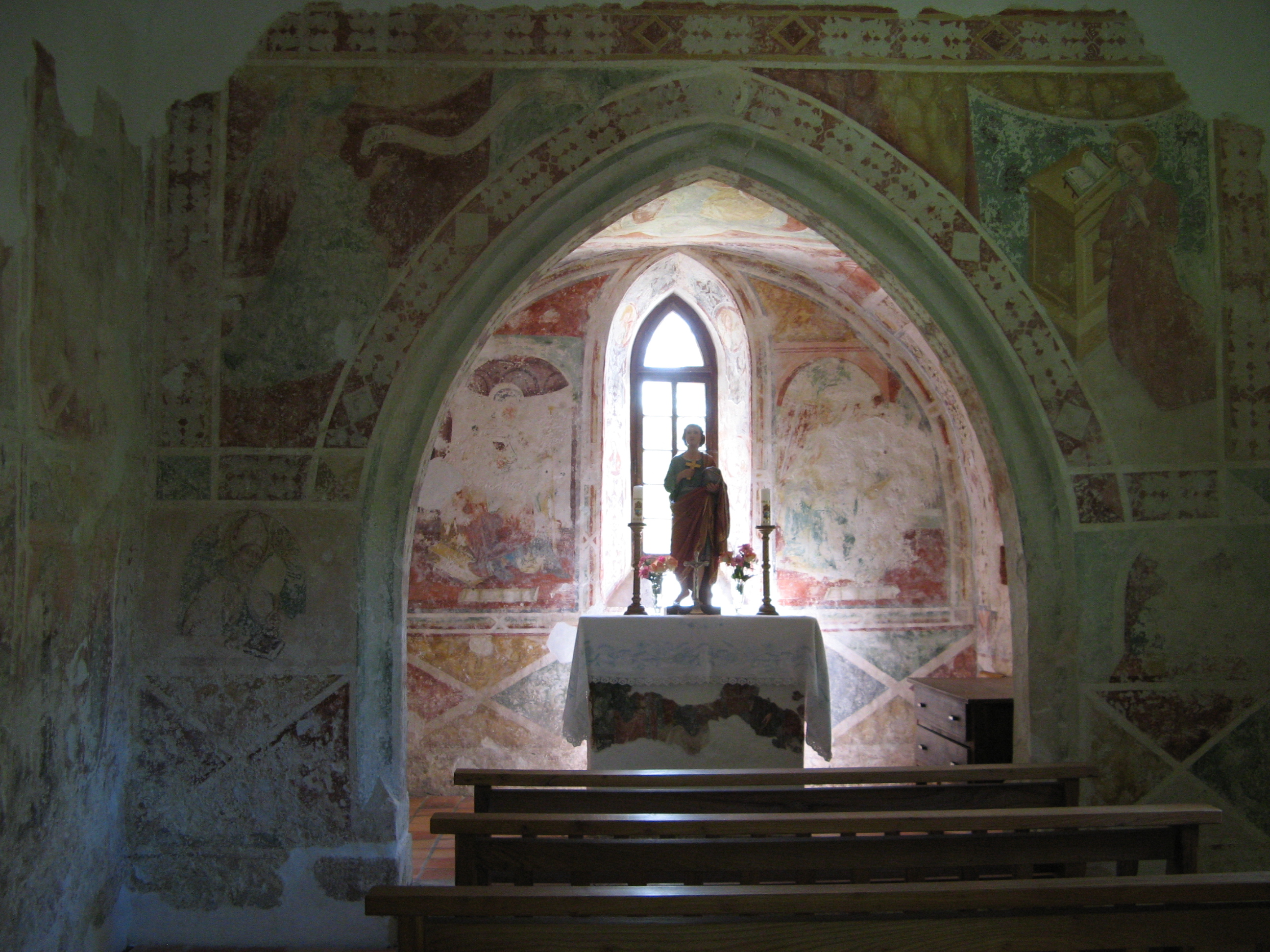 Interior of St. Just Church in Koseč (Kobarid) Slovenia. XIV sec. This media shows a cultural heritage object of Slovenia with the EŠD number: 3634